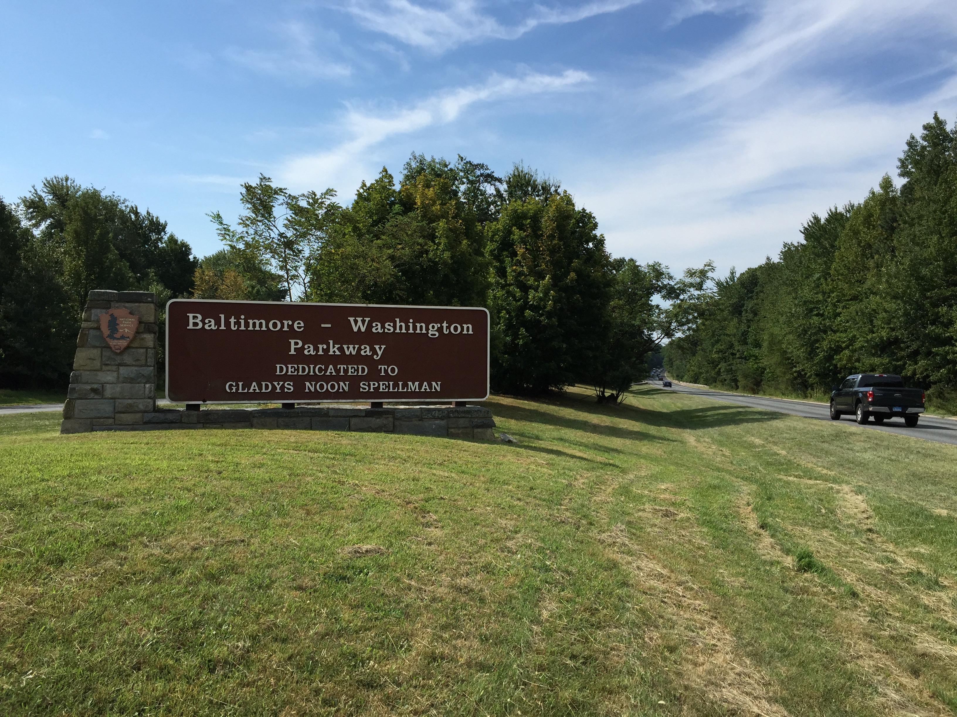 View south along Maryland State Route 295 (Baltimore-Washington Parkway) just south of Maryland State Route 175 (Jessup Road) in Jessup, Anne Arundel County, Maryland